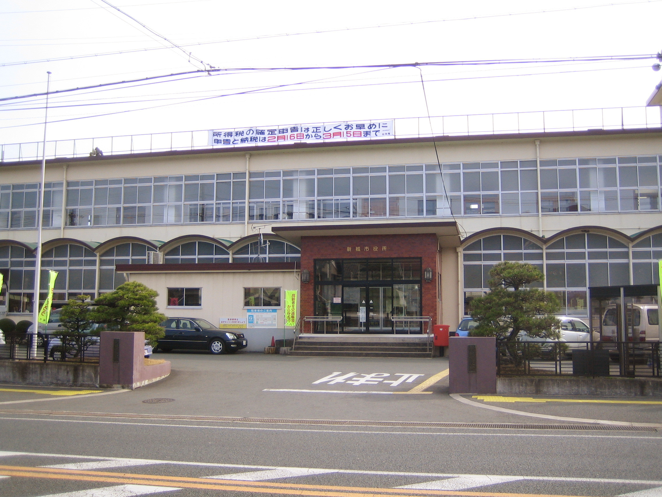 新城市役所。愛知県新城市 Shinshiro City Hall (新城市役所), located in Shinshiro, Aichi, Japan